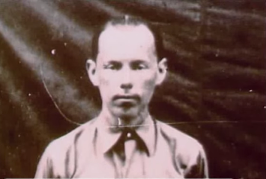 Yuri Velykanovych (1910-1938), a participant in the Spanish Civil War, Ukrainian interbrigadist fom the Ukrainian interbrigade company Taras Shevchenko, member of the Communist Party of Western Ukraine